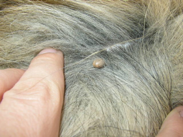 Picture of a female tick found on a dog